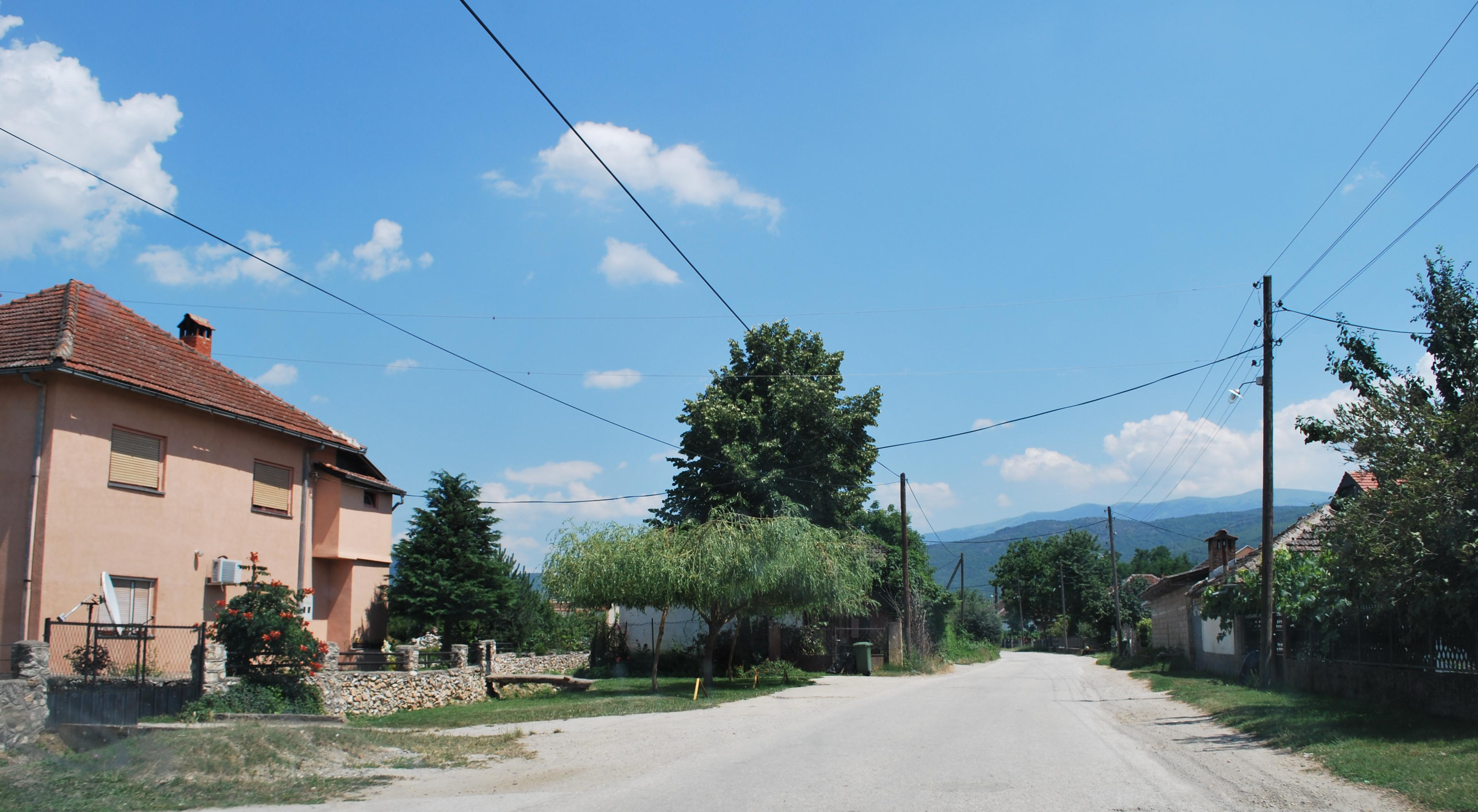 Fališe, Tetovo